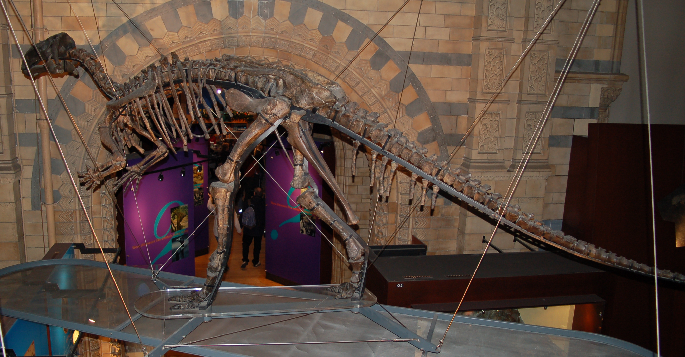 Natural history museum